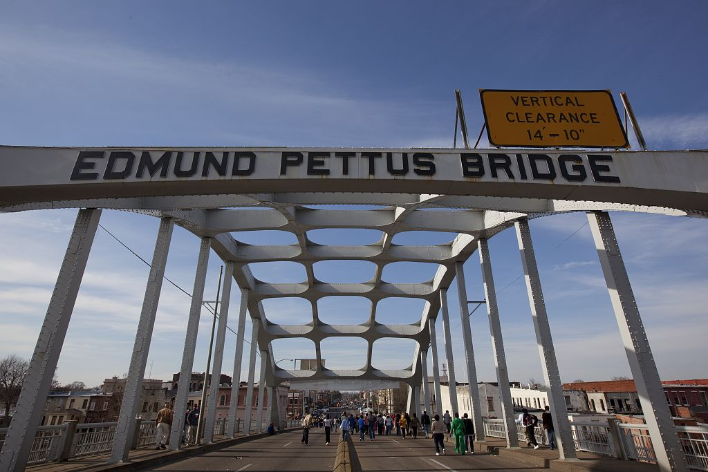 Edmund Pettus Bridge, Selma, Alabama.